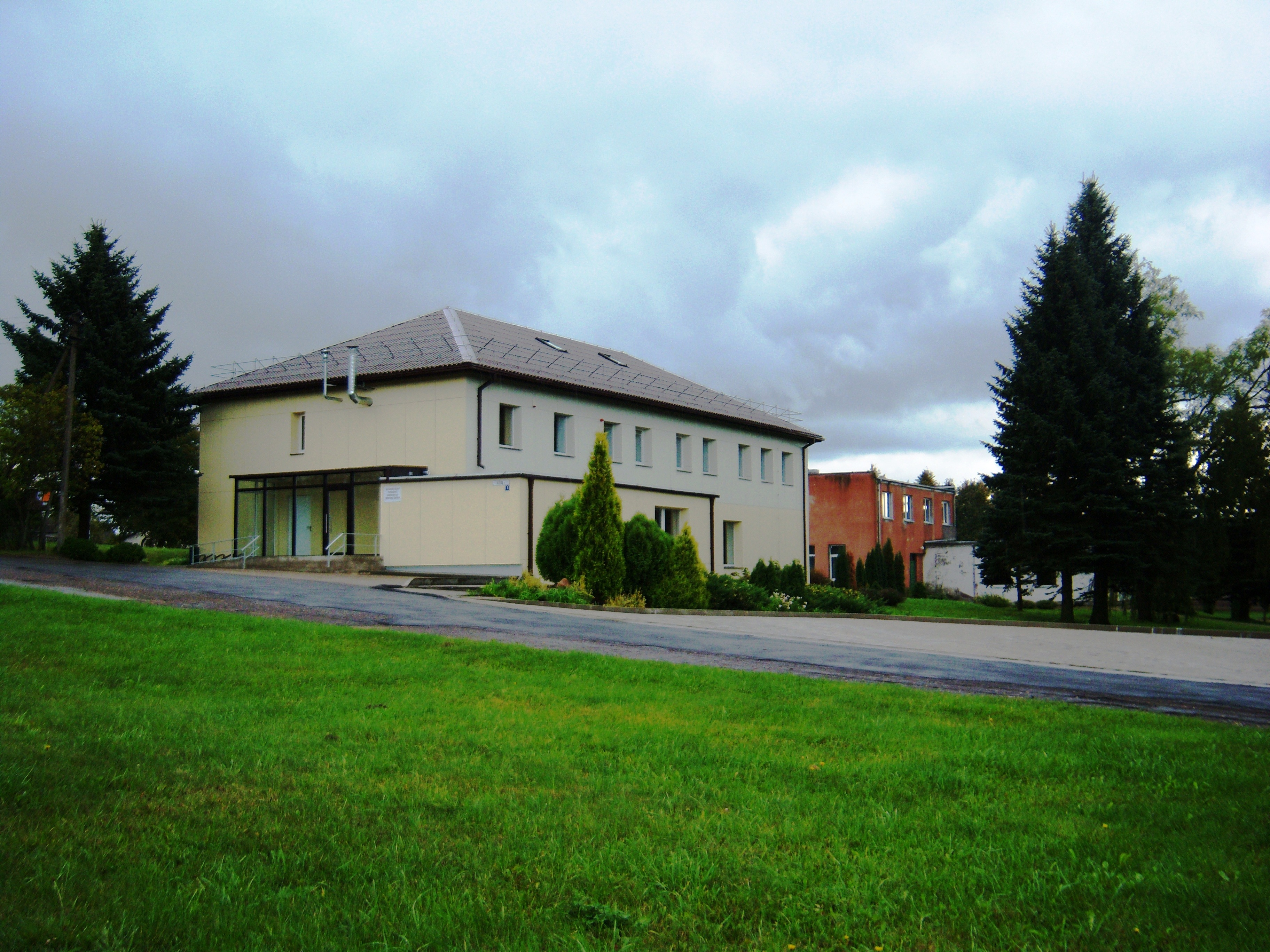 Eldership,, Varkalės, Kaišiadorys District, Lithuania